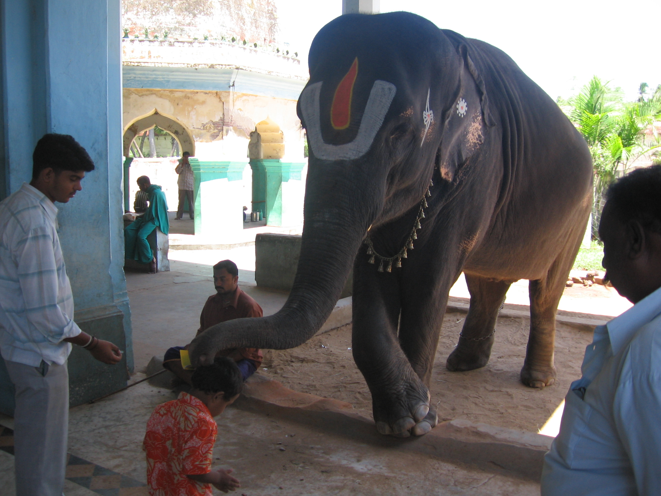 My son receiving the blessing from the Elephant at Oppiliappan Temple, Kumbakonam